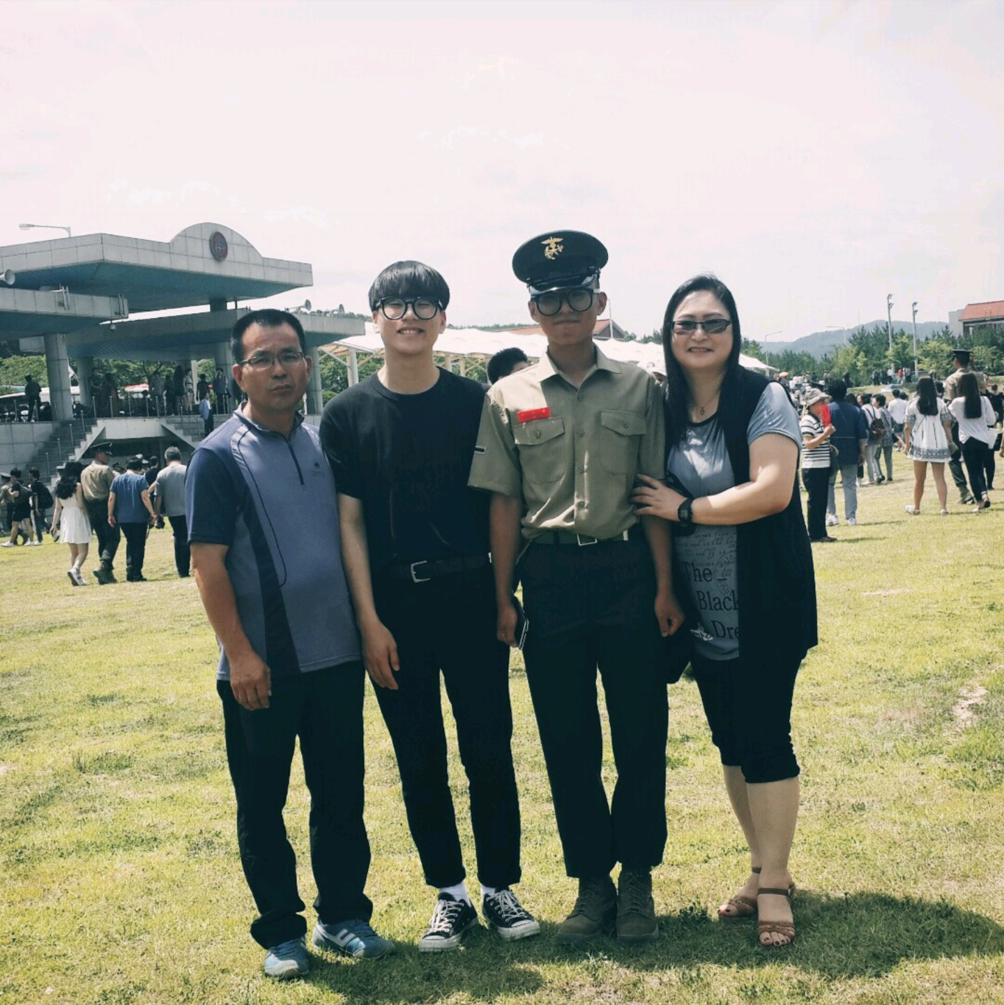 Just Completed Basic Military Training for ROKMC Some Private Familys in ROKMC Education Group.jpg